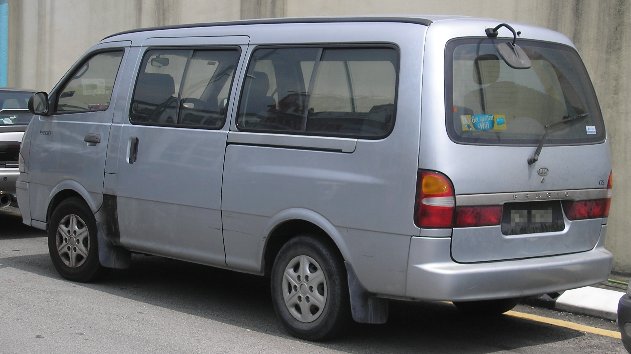 Rear quarter view of a first generation Kia Pregio, in Serdang, Selangor, Malaysia.